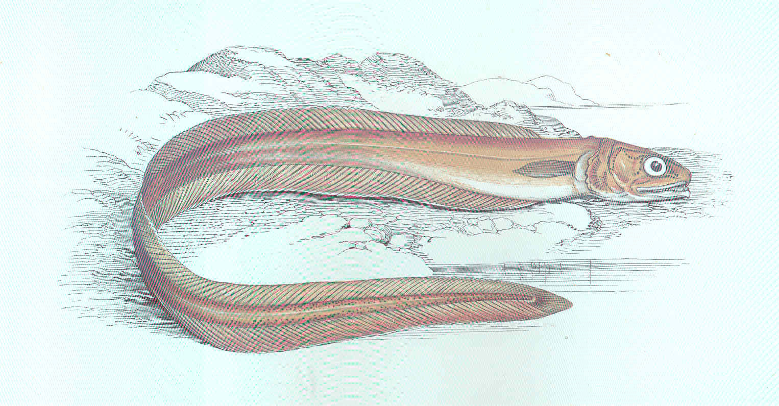 Drummond's Echiodon Fierasfer dentatus Echidion drummondii Subject: Fierasferidae, Echiodon Tag: Fish